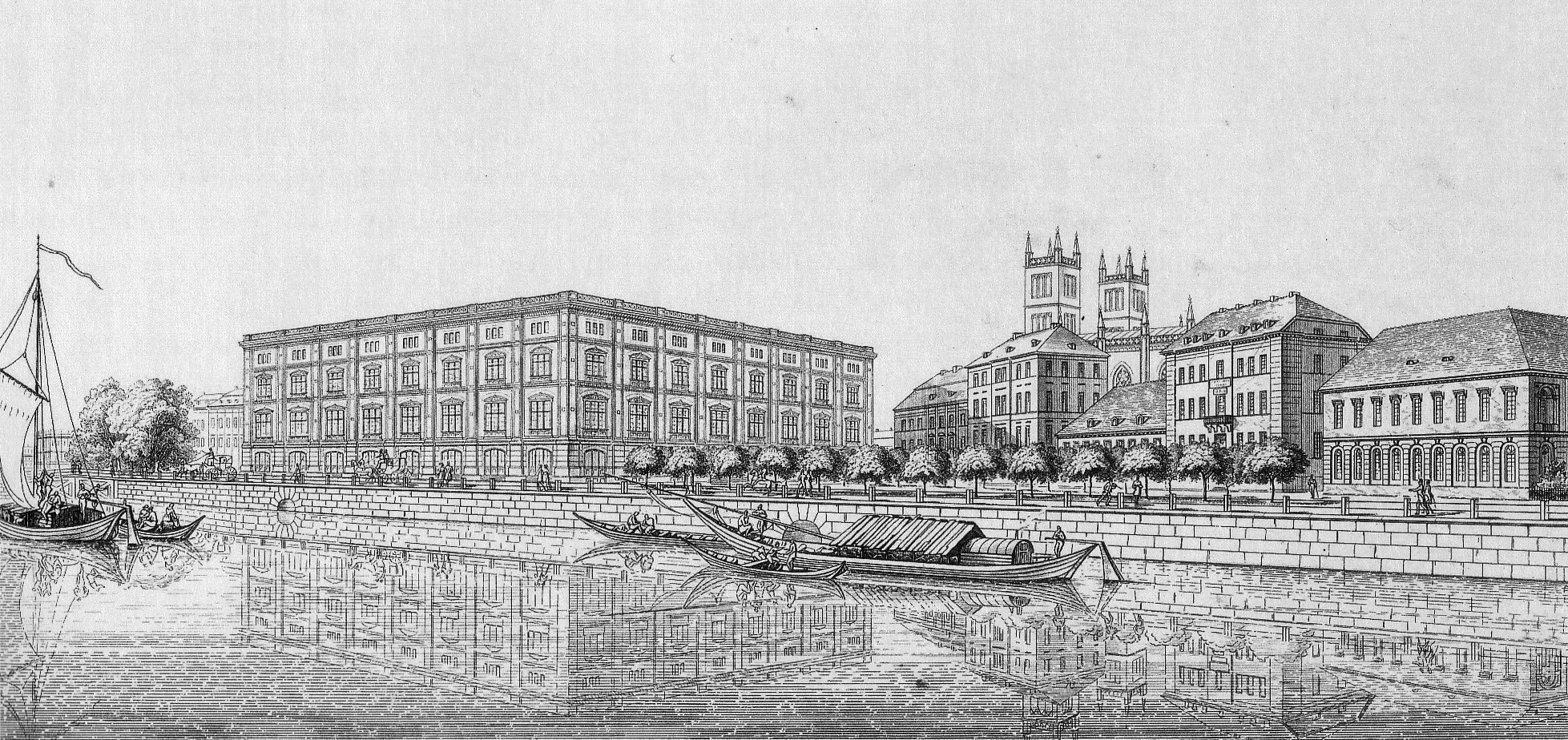 Project of the "Bauakademie" in Berlin. Copper engraving.